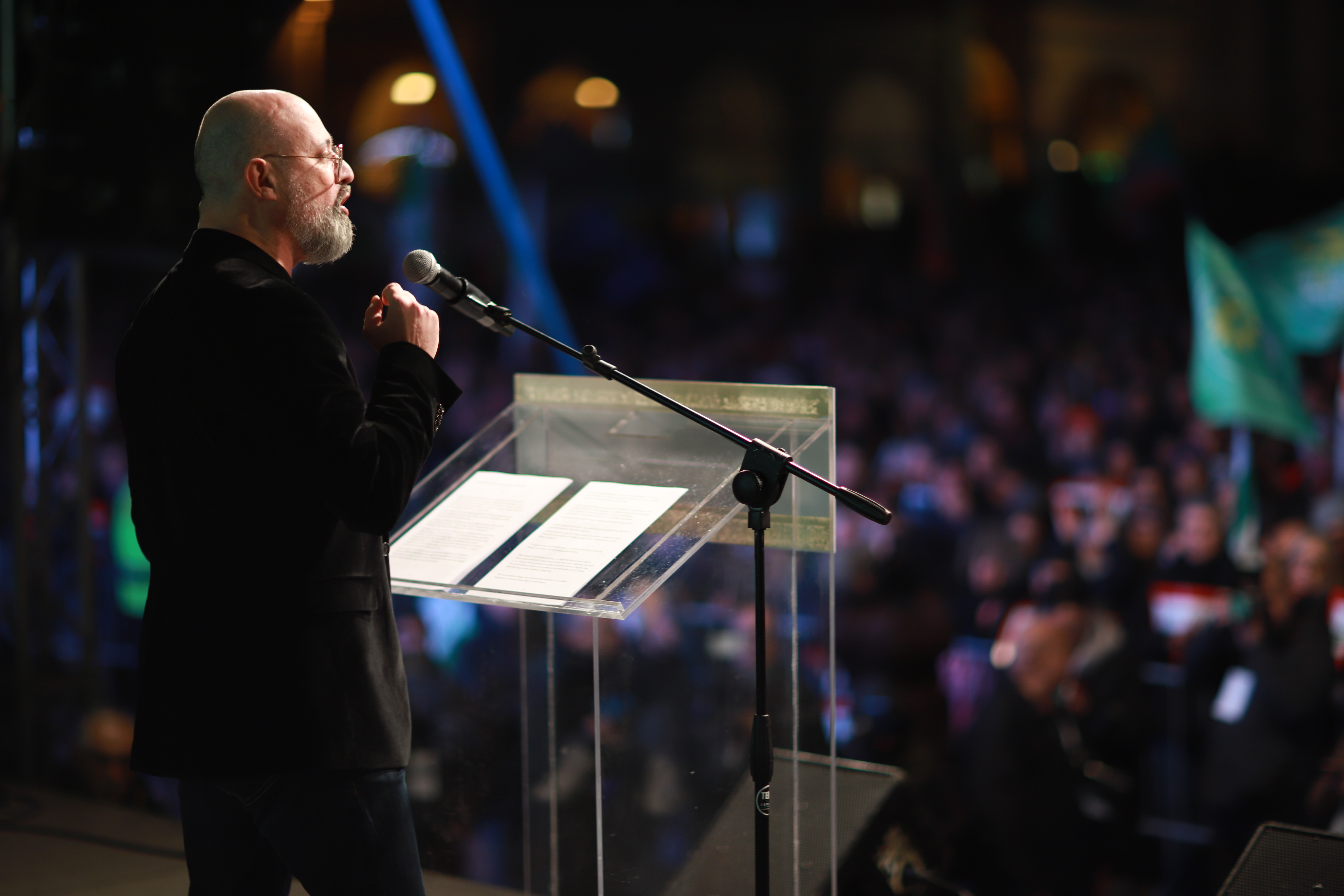 Stefano Bonaccini in Piazza Maggiore